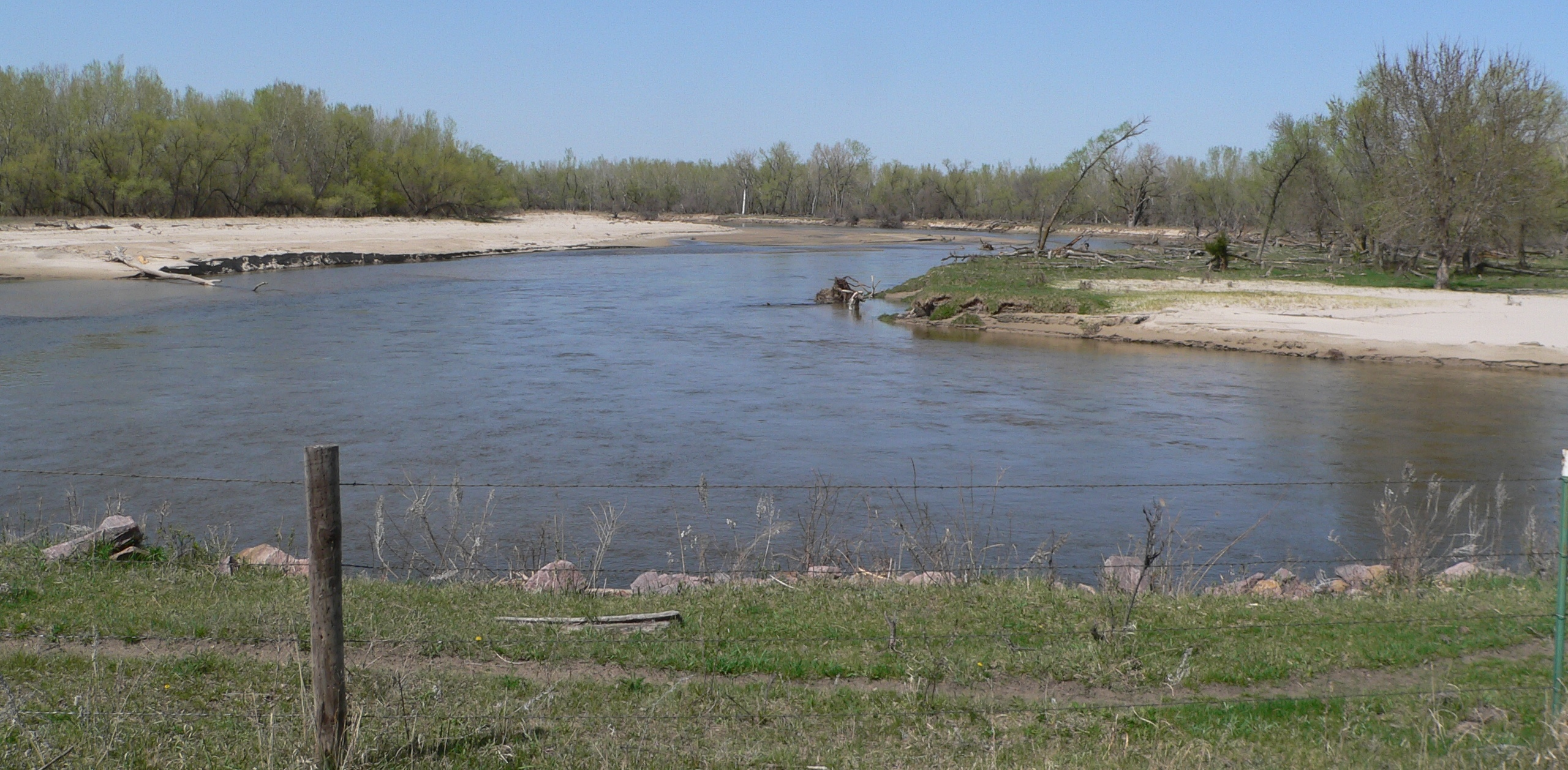 Elkhorn River seen from Cowboy Trail in Antelope County, Nebraska; about 1.1 miles (1.8 km) west of county road 519 Ave. The photo was taken at a bend in the river, which flows toward the camera, then to the right.